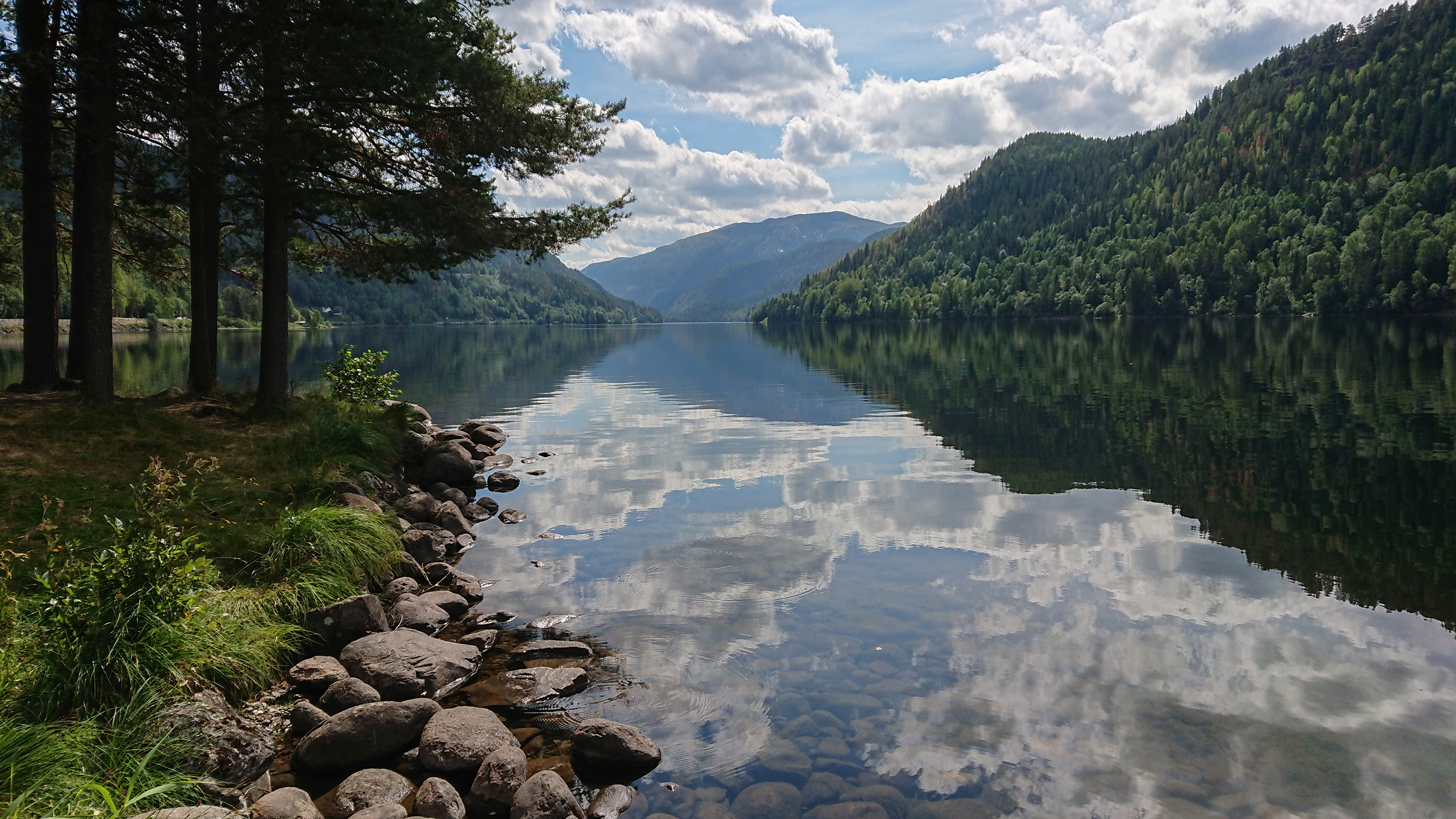 Tatt fra rasteplass på østsiden ved Deilesodden, sett sørover. British